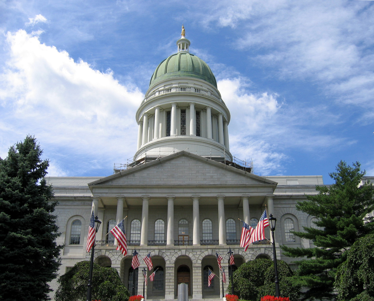 A photograph of the Maine State House in Augusta, Maine. Completed in 1832, it was designed by Charles Bulfinch. The picture was taken with a Canon PowerShot S50 digital camera and edited with Adobe Photoshop.